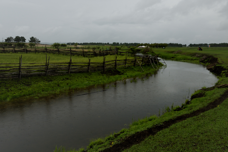 View from the S202 near the Haoyaoer Cha Ganmaode